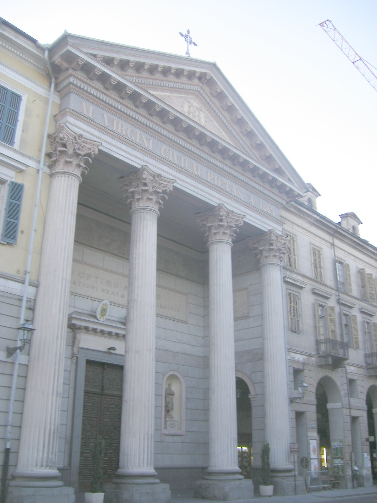 Roman Catholic cathedral in Cuneo, Piedmont region. In Neoclassical style.